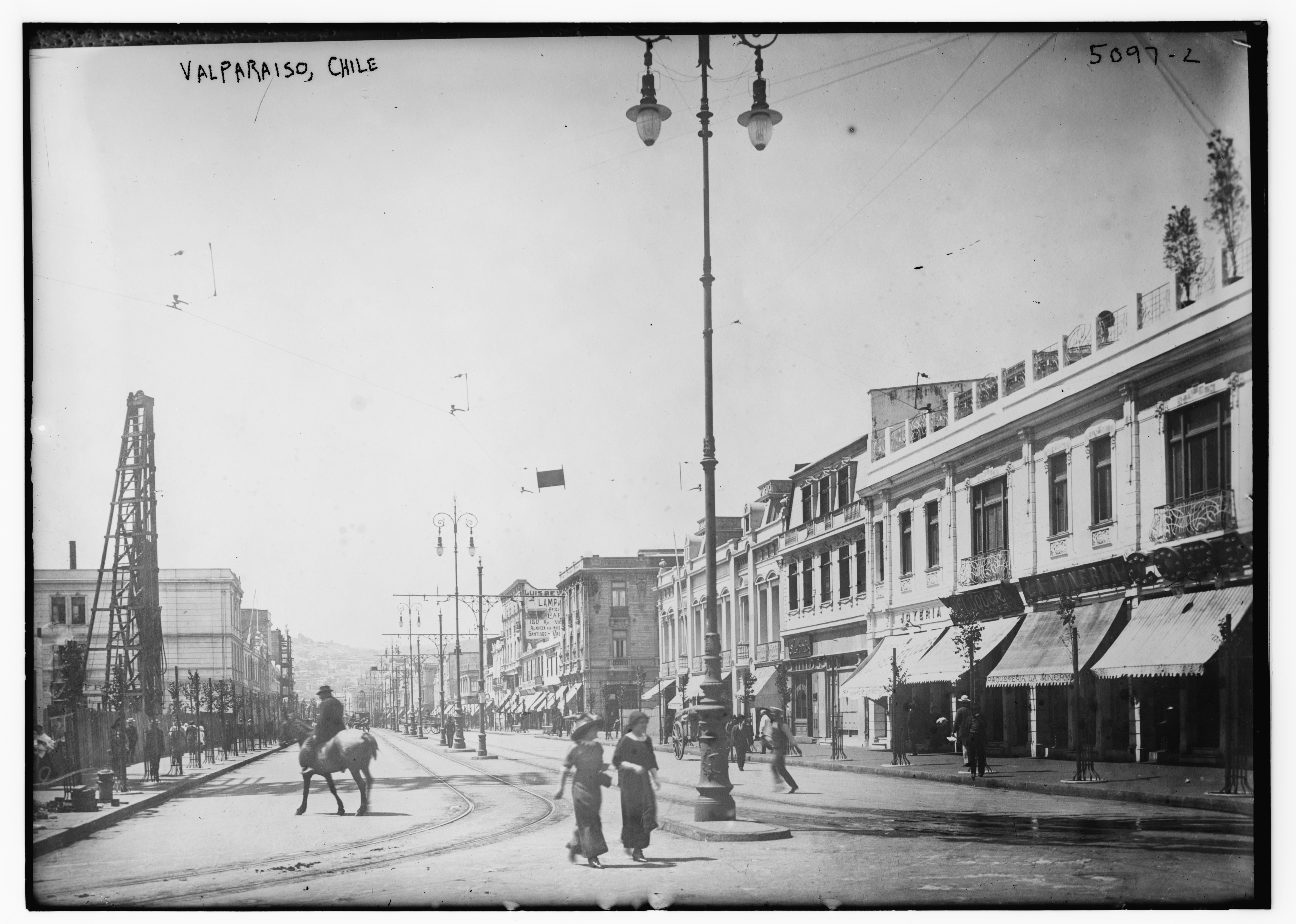 Valparaiso, Chile